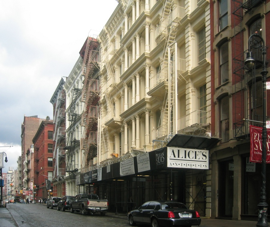 Cast-iron architecture in Greene Street SoHO, Manhattan, New York City, New York, USA